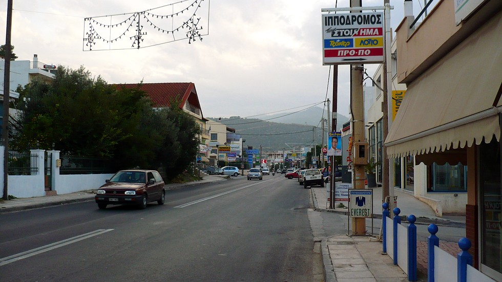 The picture depicts the Klisthenous Avenue at Gerakas.